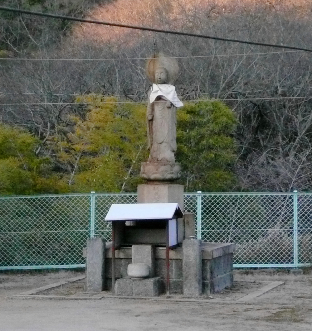 Ksitigarbha statue for victim of the accident in 1938, at Kobe Electric Railway Hiyodorigoe Station